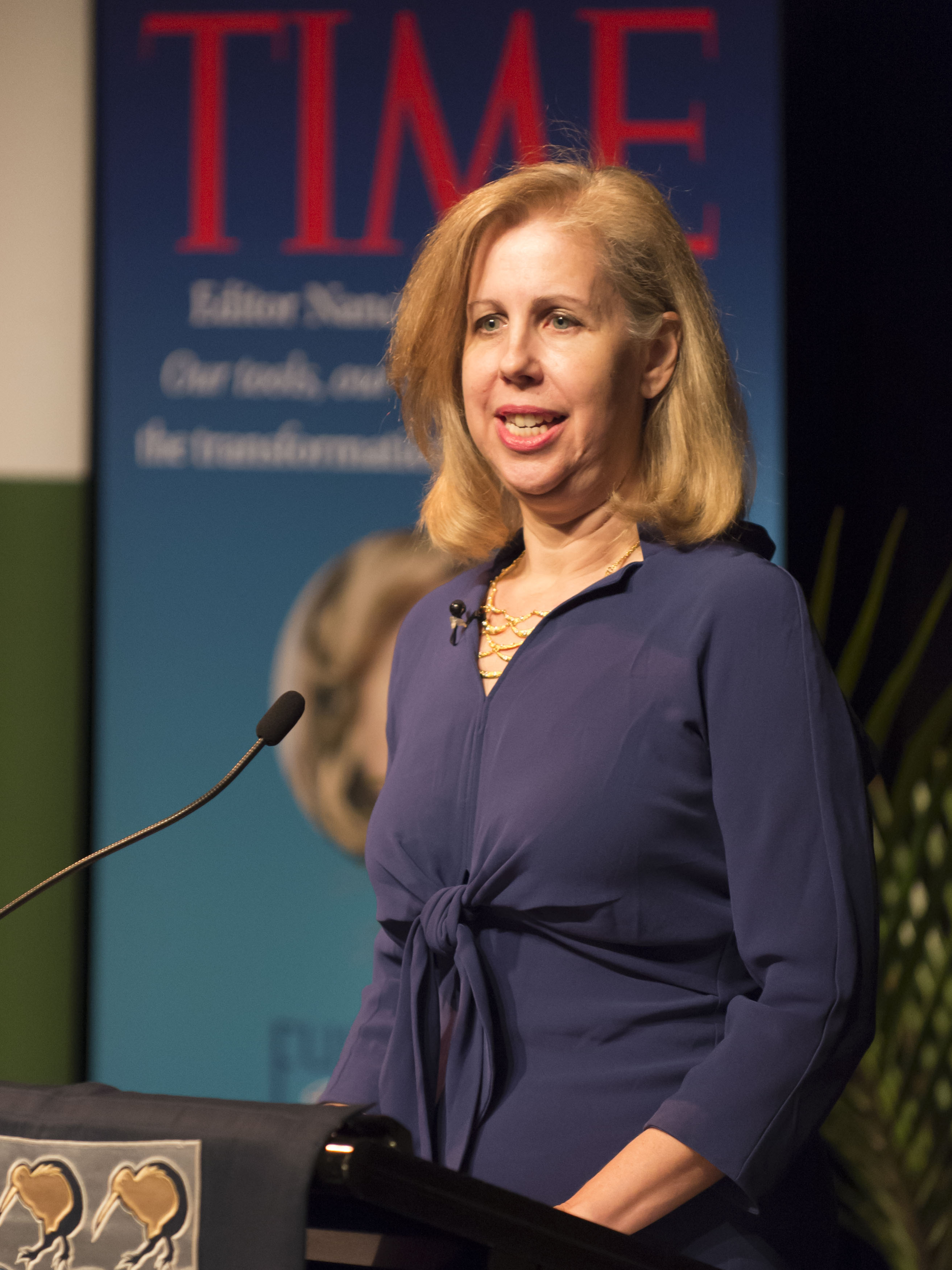 Nancy Gibbs @ Maidment Theatre, July 30, 2015